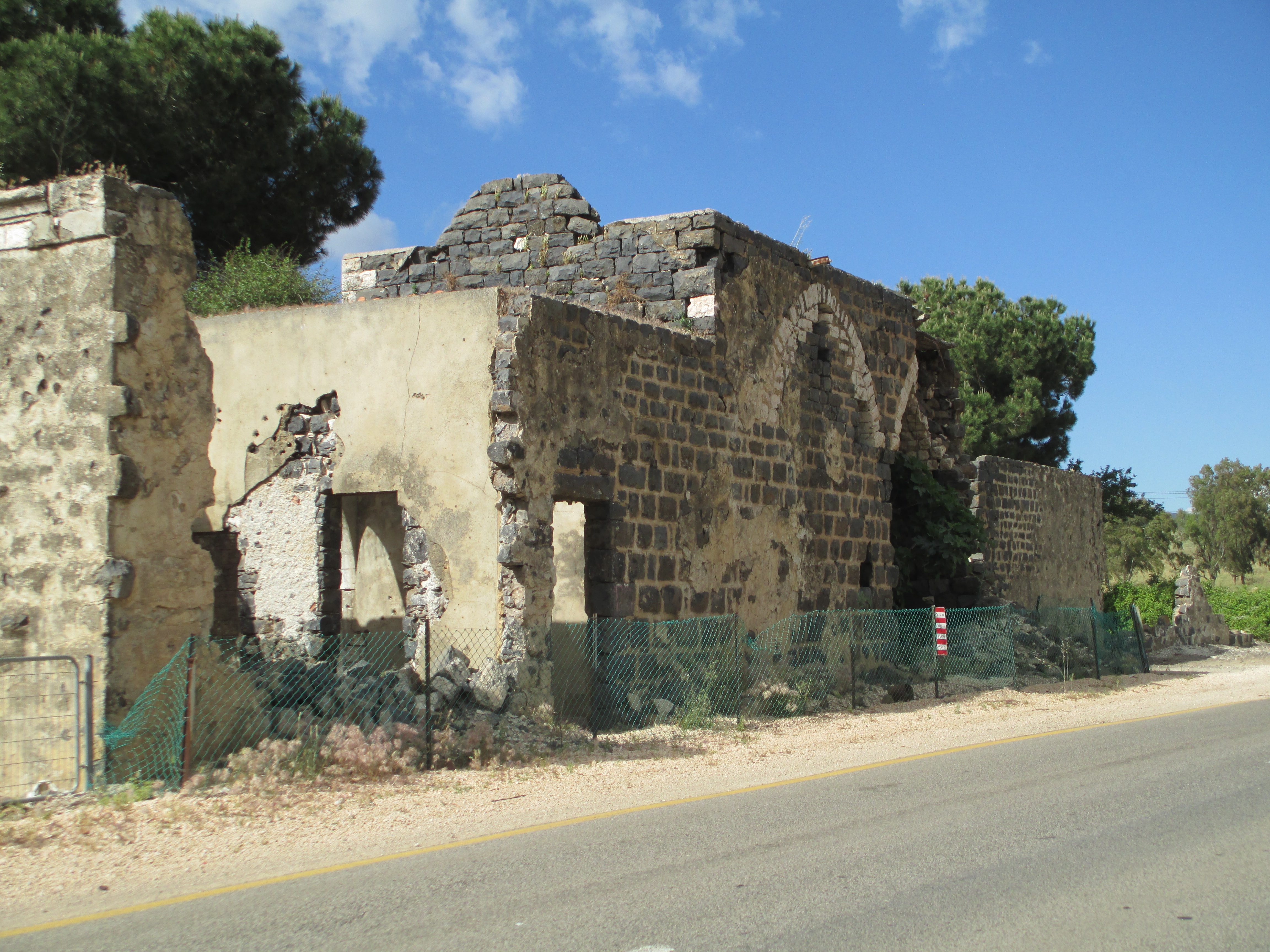 Ruins of Emir Fa'ur Palace in Orvim Park, Golan Hights